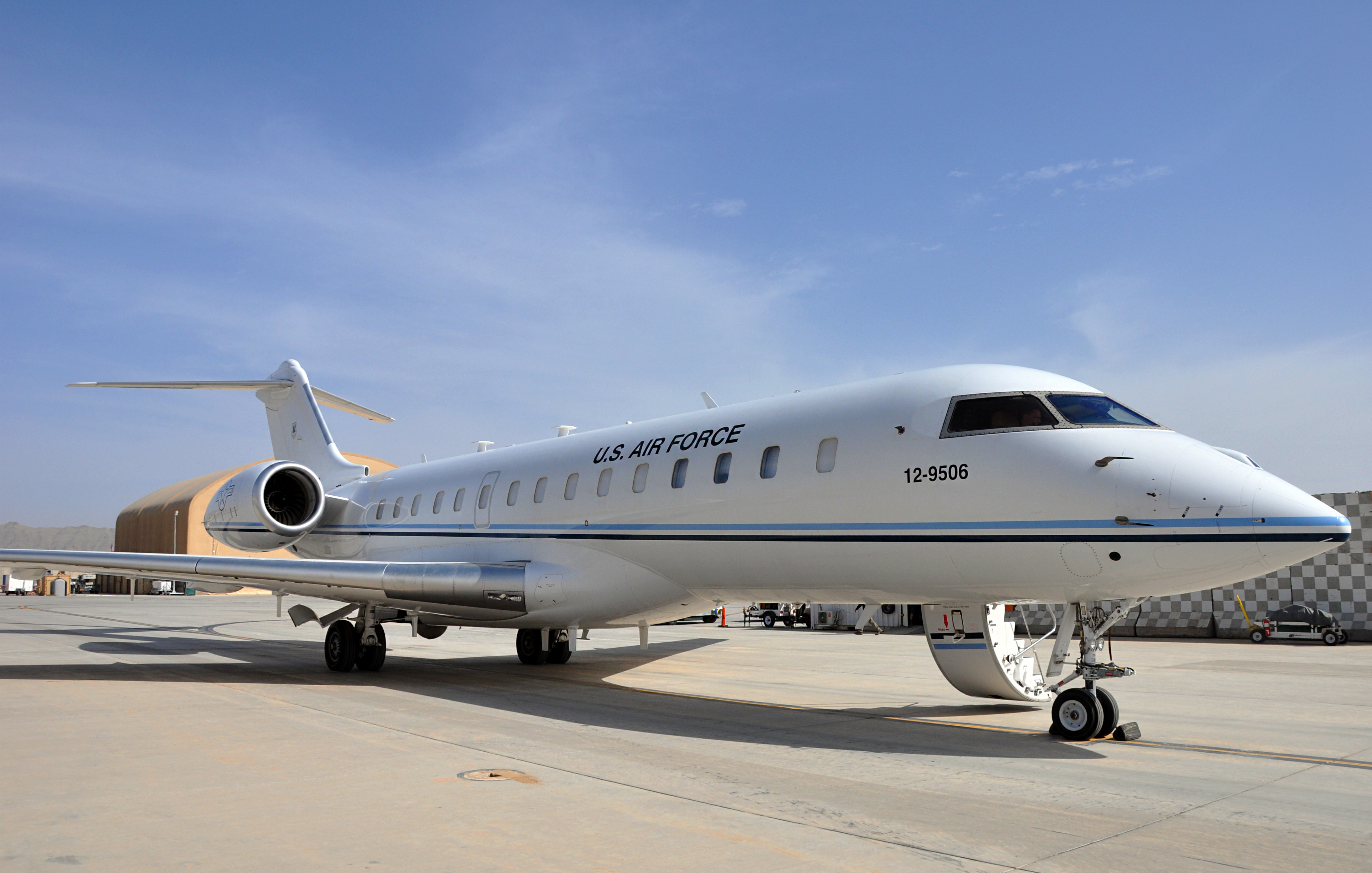 A 430th Expeditionary Electronic Combat Squadron E-11A aircraft outfitted with a Battlefield Airborne Communications Node sits on the runway at Kandahar Airfield, Afghanistan, April 4, 2019. The 430th EECS is the only unit that operates these aircraft with the BACN payload. (U.S. Air Force photo by Capt. Anna-Marie Wyant) (Photo ID: 5253493)